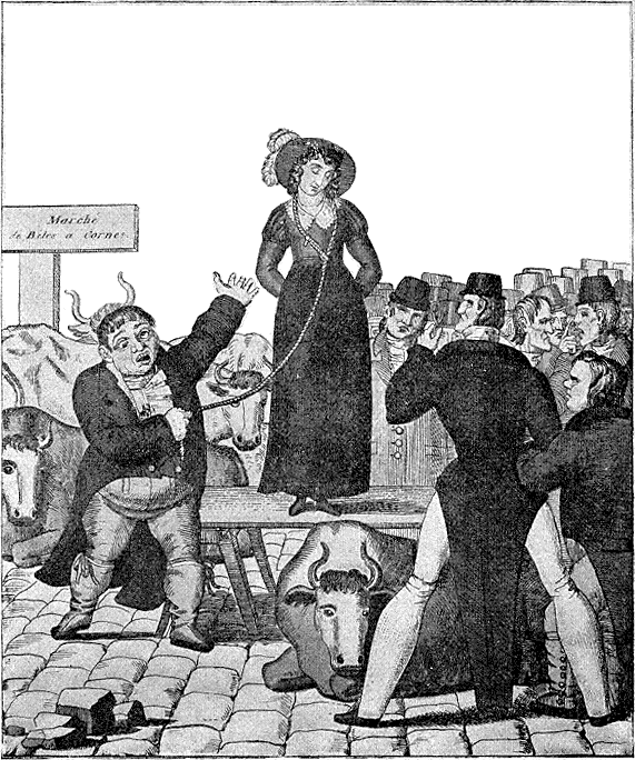 Regency period print depicting a wife sale.